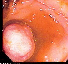 Original description: Endoscopic image of polyp in small bowel detected on double balloon enteroscopy. Released into public domain on permission of patient -- Samir धर्म 08:36, 7 June 2006 (UTC). This image appeared on Wikipedia's Main Page in the Did you know? column on 7 June 2006.